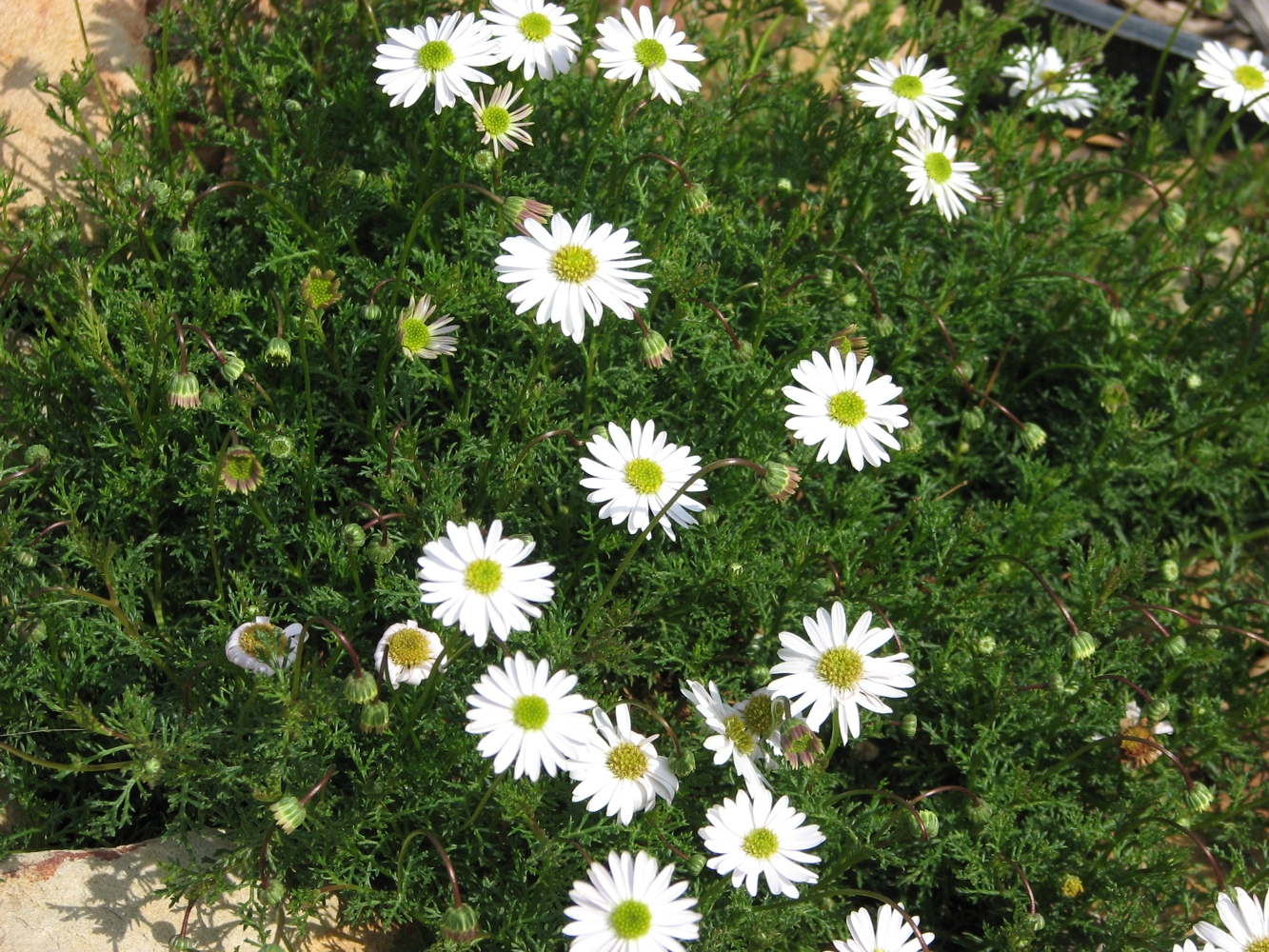 Brachyscome multifida 'White Delight', Royal Botanic Gardens Cranbourne, Victoria, Australia